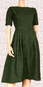 green dress in 50ths style